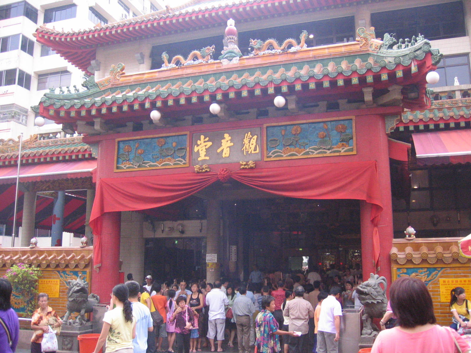 Kwan Im Thong Hood Cho Temple.